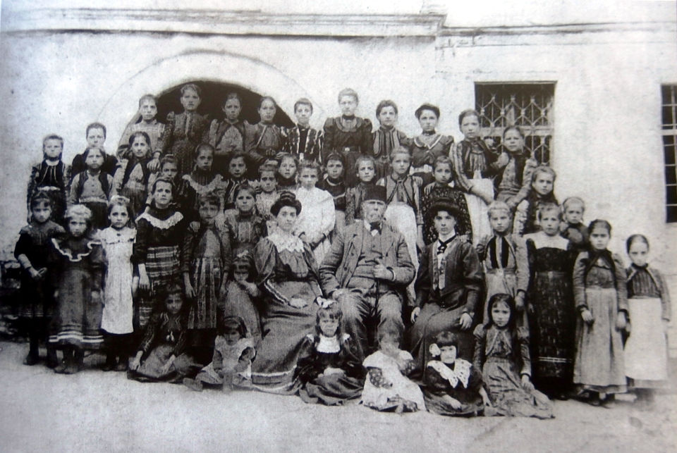 Greek Women's School in Kleisoura, 1904